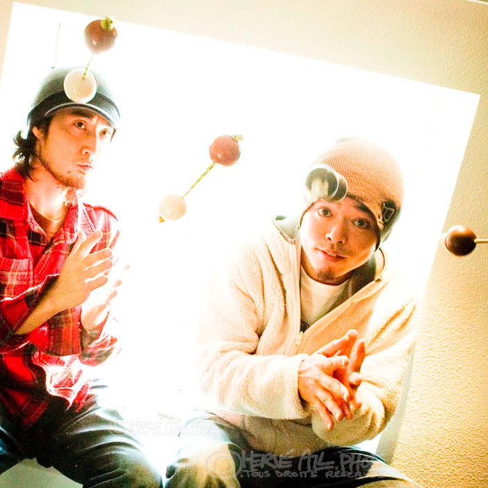 The duo Hifana playing with pairs of asalato percussion instruments, whilst at the 2008 Transmusicales festival in Rennes.